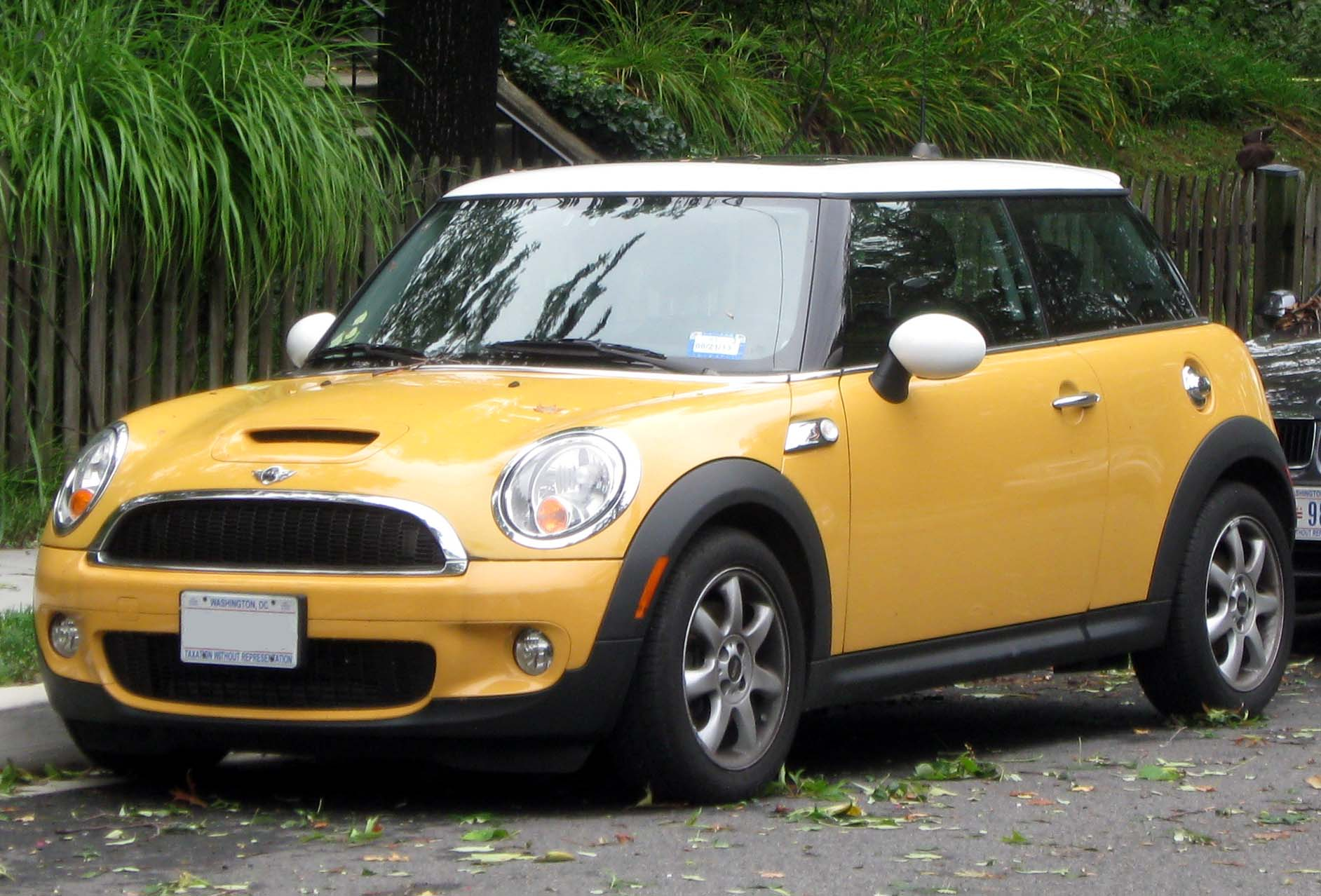 2007-2010 Mini Cooper S photographed in Washington, D.C., USA.